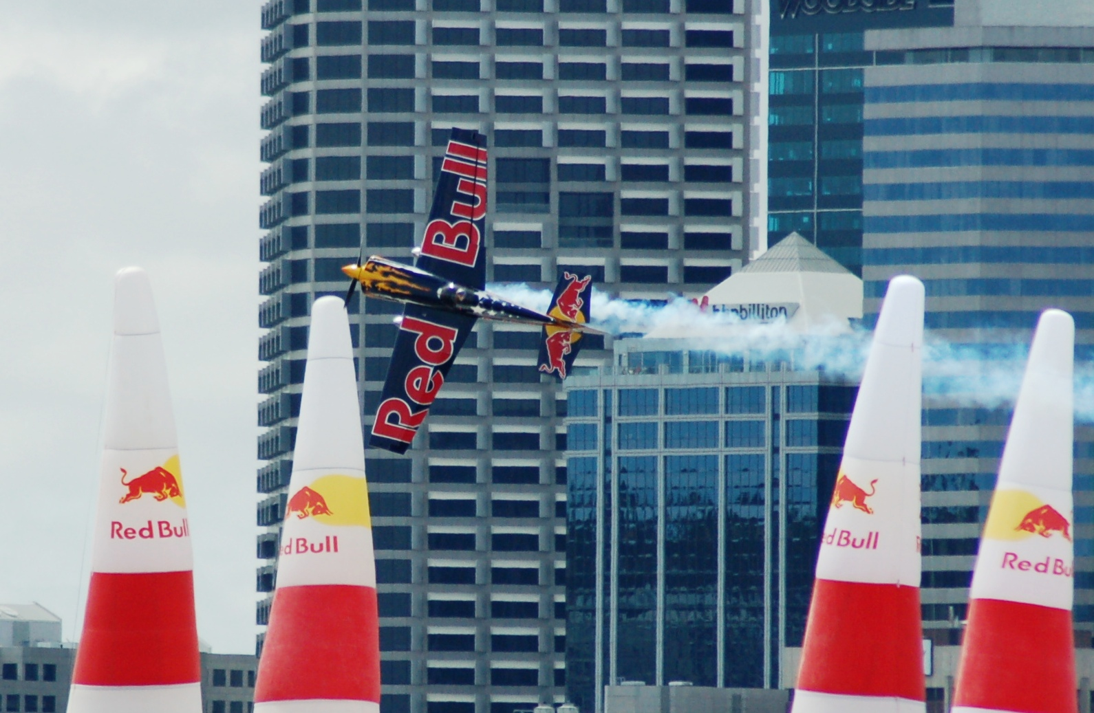 Red Bull Air Race World Series pilot, Kirby Chambliss, performing a "knife edge" manouver in his Edge 540 in Perth, Western Australia during the final leg of the 2006 series. Chambliss came third in the race and first over all.